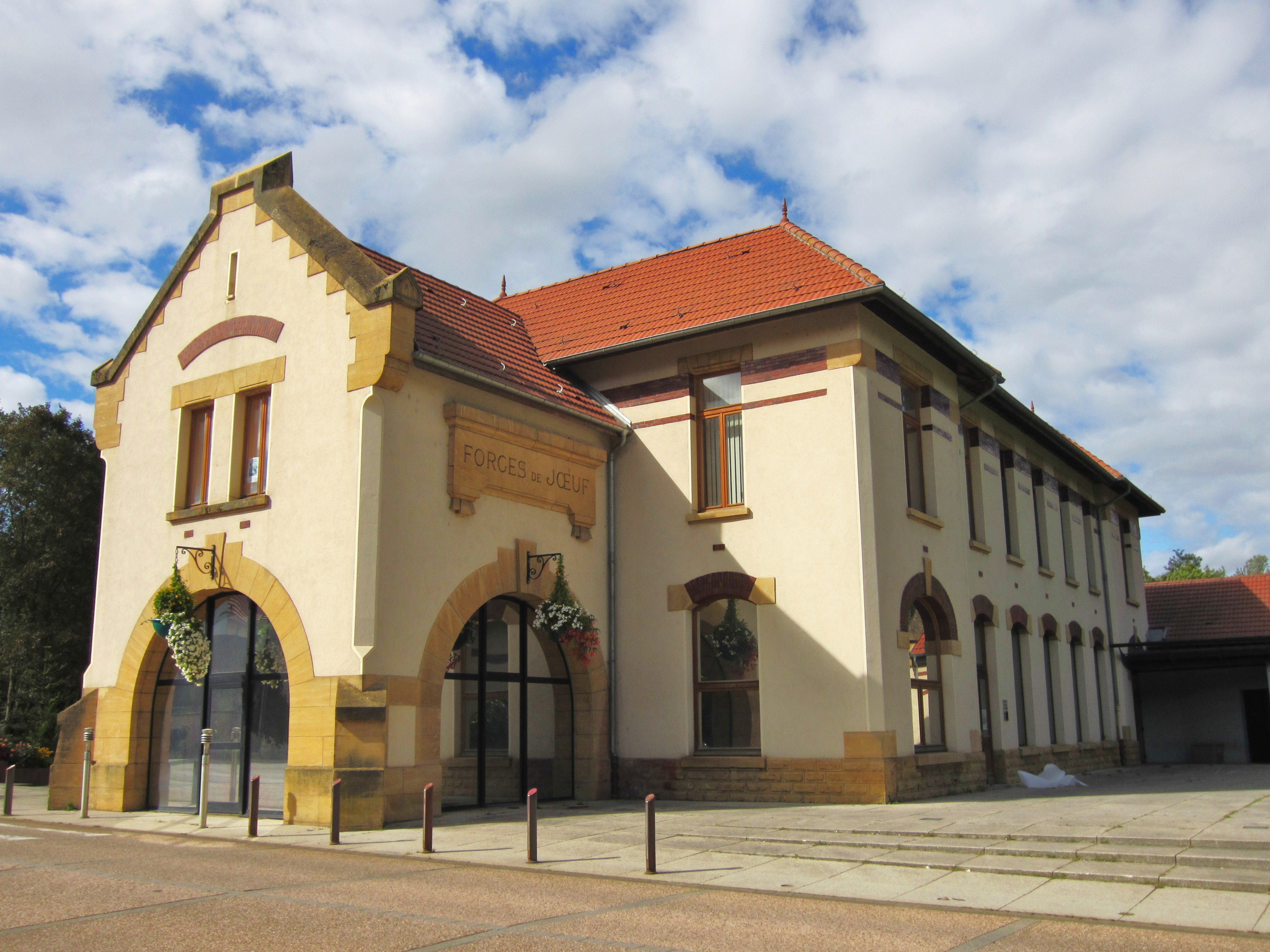 Description forges de Joeuf Date14 September 2011Sourcemon appareil photoAuthorAimelaimePermission (Reusing this file) forges de Joeuf